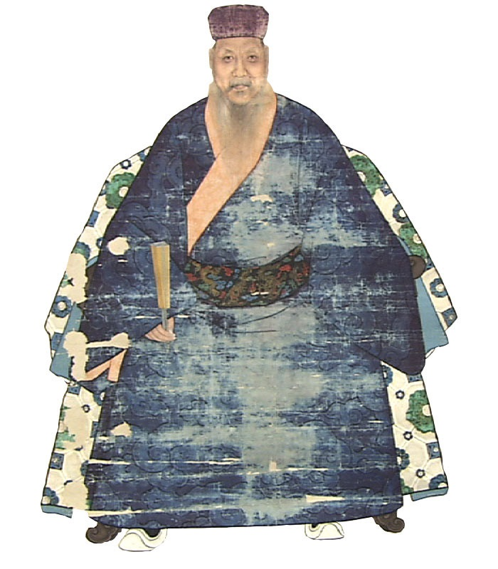 Tei Junsoku(Nago Ueekata Chobun)